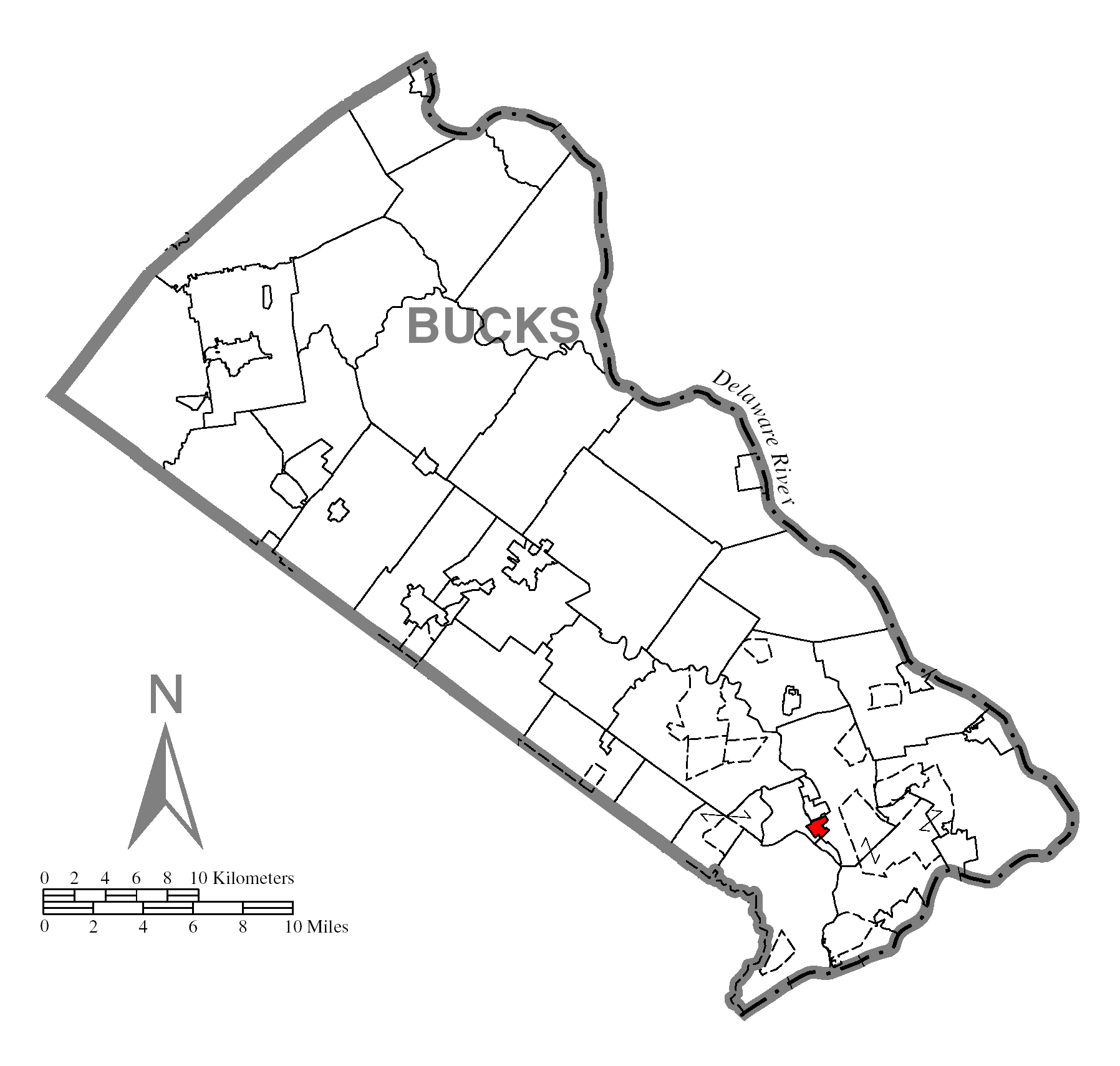 A map of Bucks County showing Penndel, Pennsylvania (alternate) highlighted on the map.